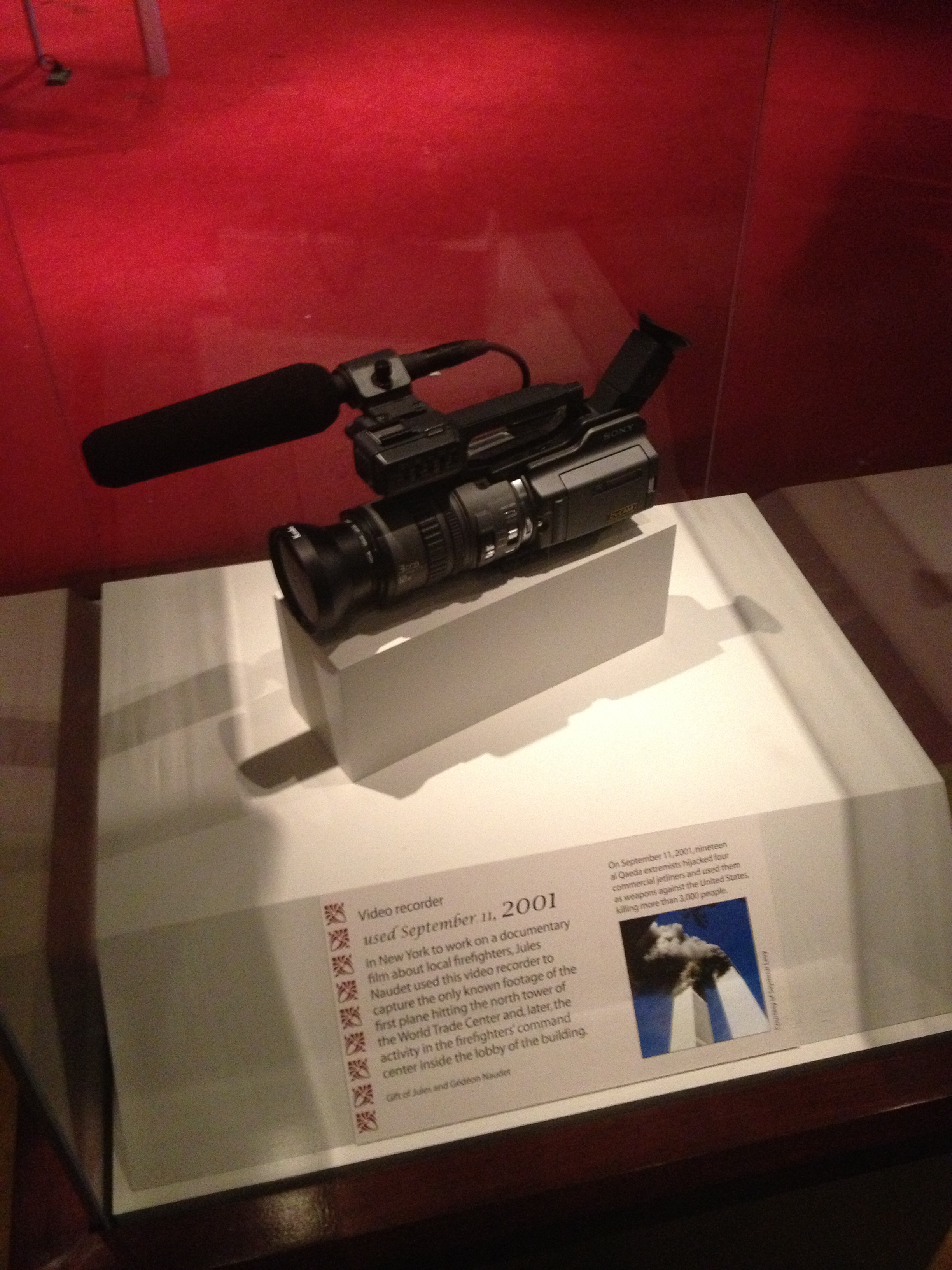 This is the camera (a Sony DSR-PD150 DVCAM 3CCD camcorder) which Jules Naudet used to tape Flight 11 crashing into the North Tower of the World Trade Center on September 11, 2001.